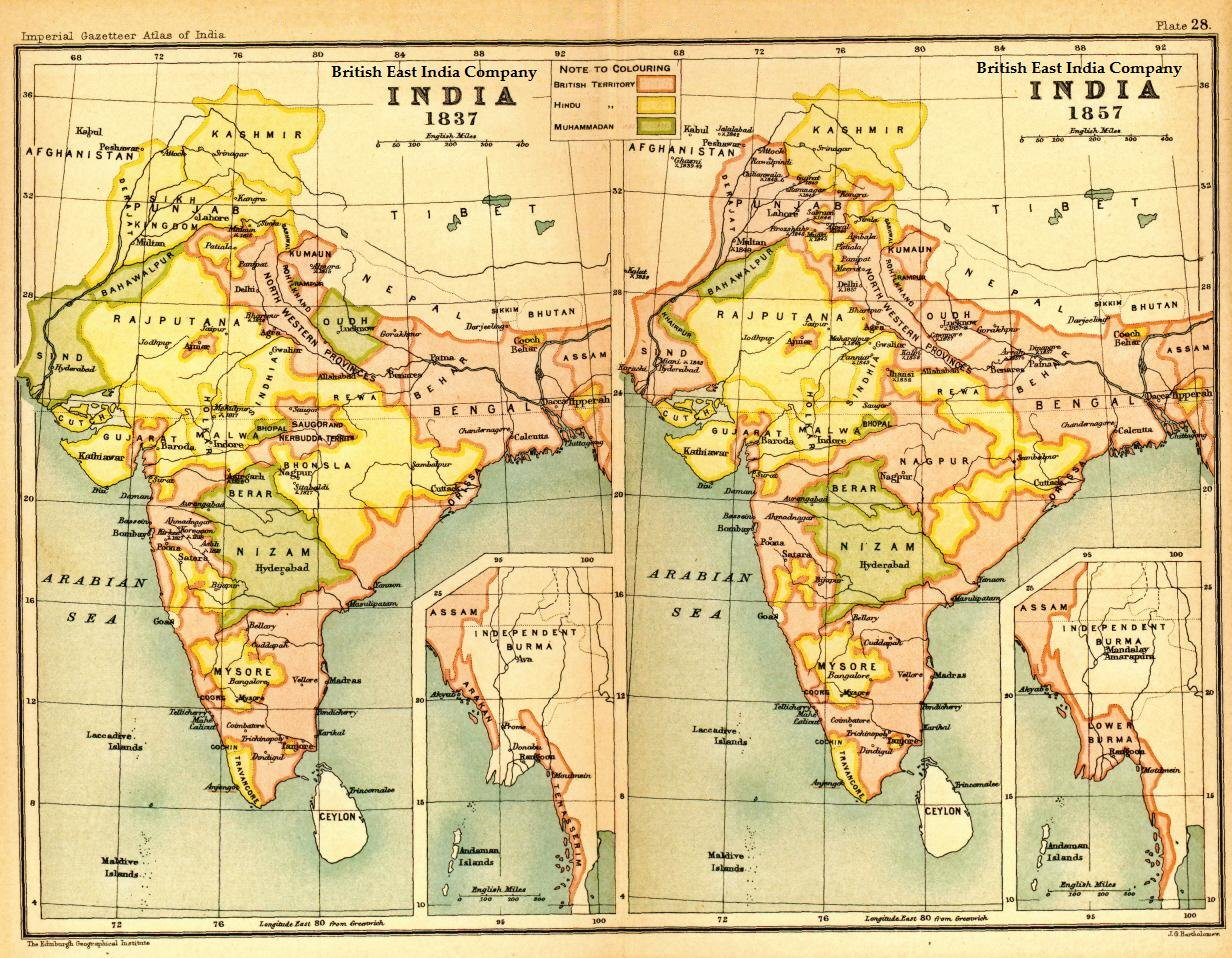 Image of map of India under the British East India Company, comparing 1837 with 1857